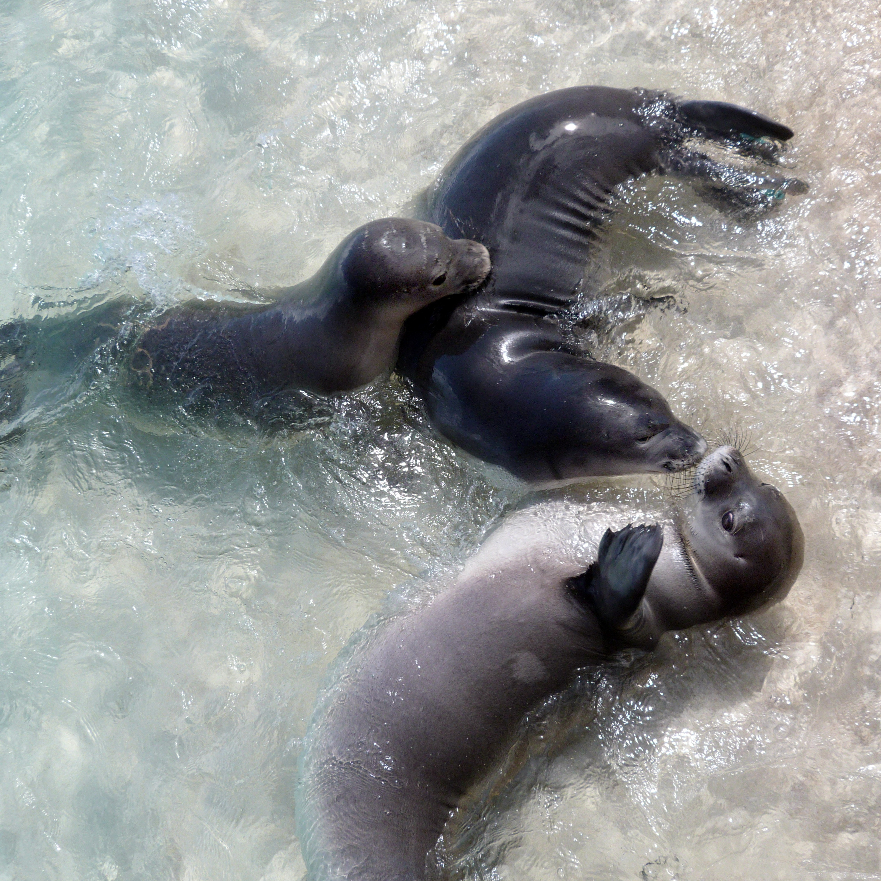 Monk seal pups playing in the shallows at French Frigate Shoals. Image ID: anim2606, NOAA's Ark Collection Location: Hawaii, French Frigate Shoals Credit: NOAA/PIFSC/HMSRP